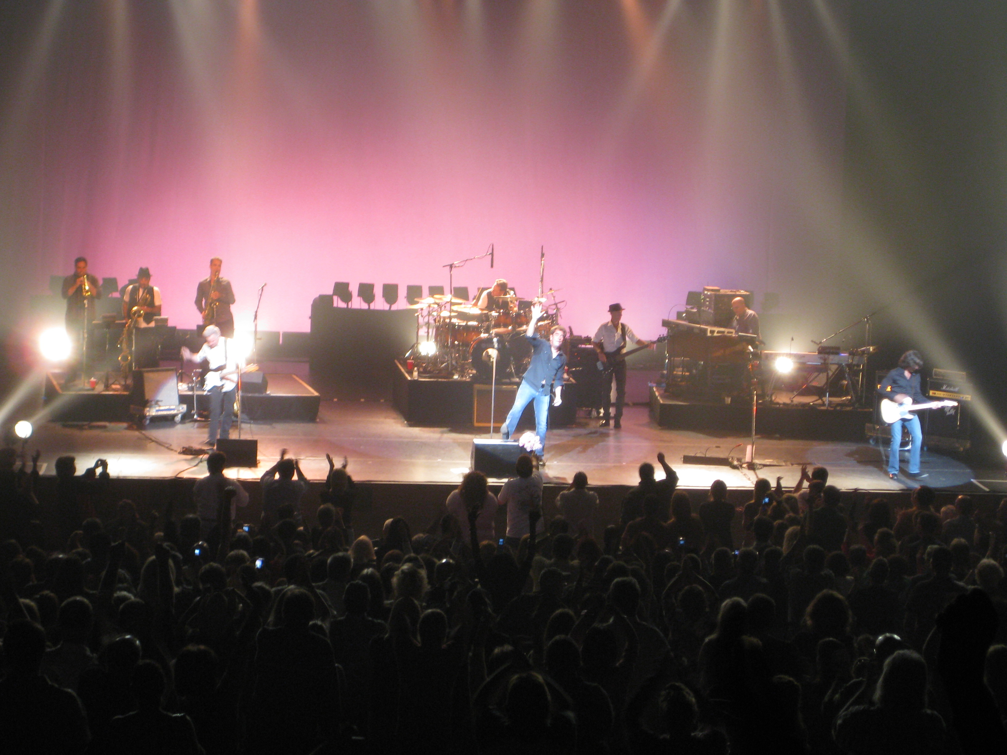 Rock group Huey Lewis and the News perform at the MGM Grand Theater at Foxwoods Resorts in Connecticut in June 2009, photographed by Ben+Sam.